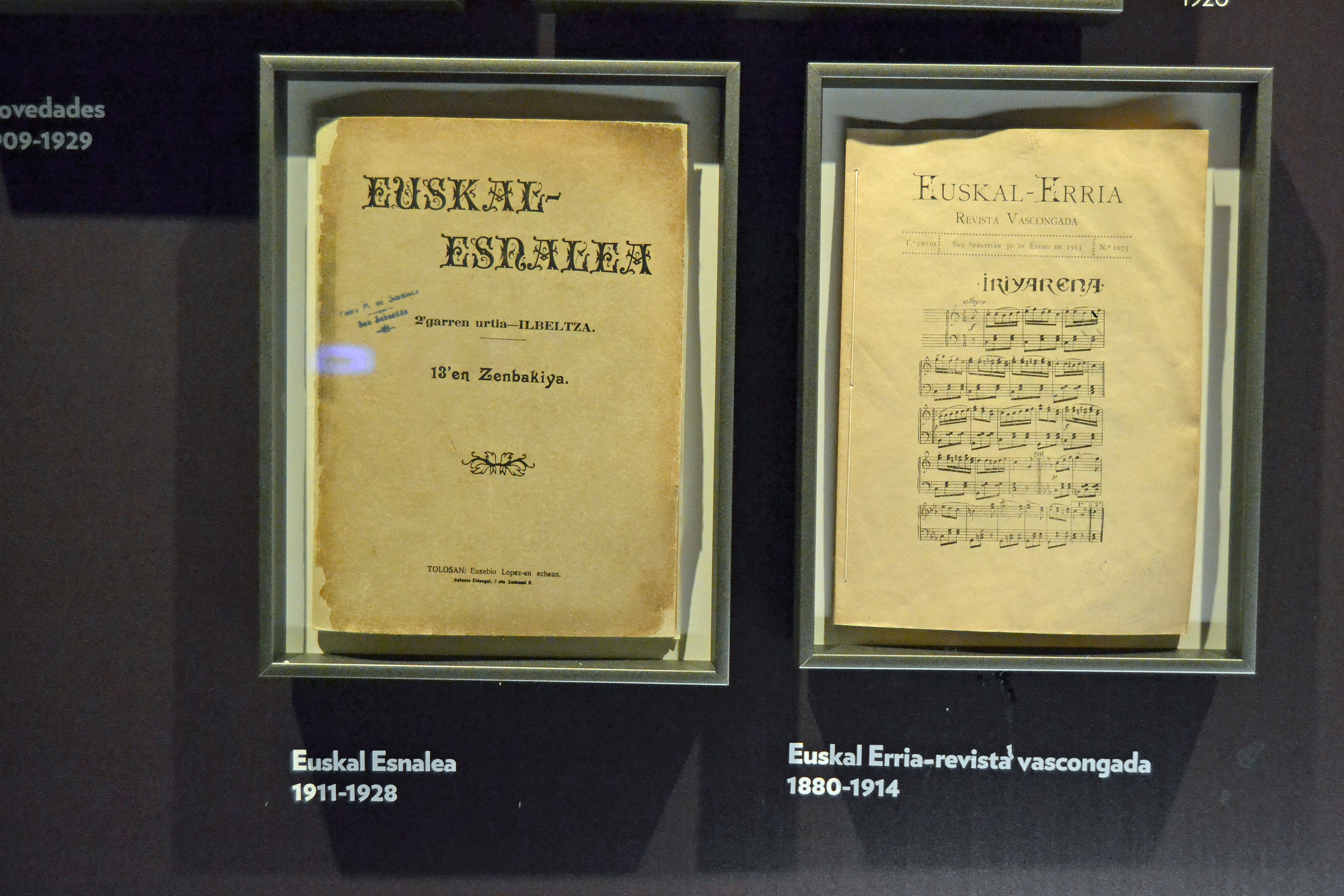 Euskal-Esnalea (1911-1928) and Euskal-Erria (1880-1914) basque culture magazines.